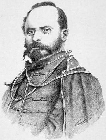 Eugene Kvaternik, Croatian politician and revolutionary